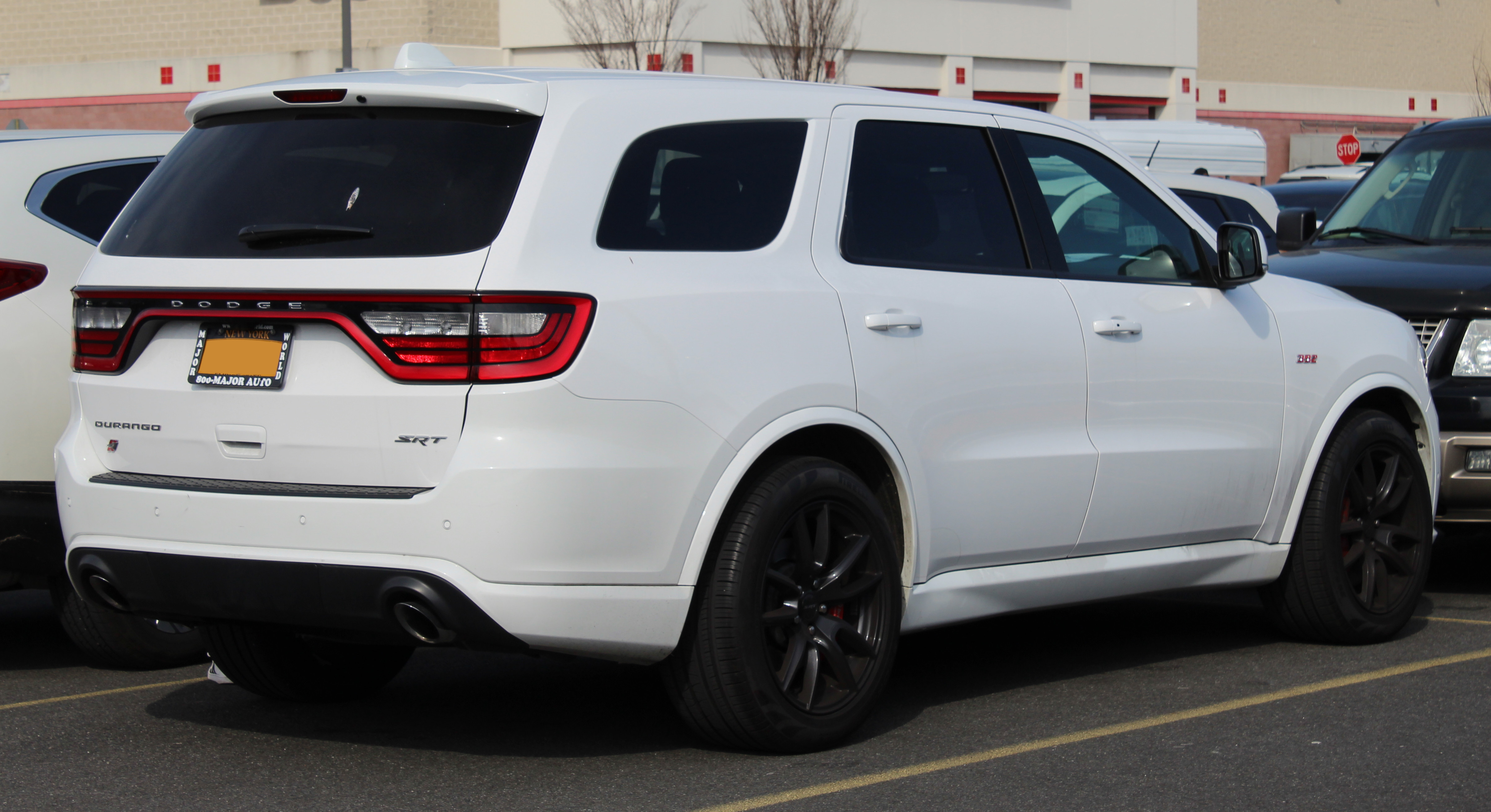 A 2018 Dodge Durango photographed in College Point, Queens, New York, USA